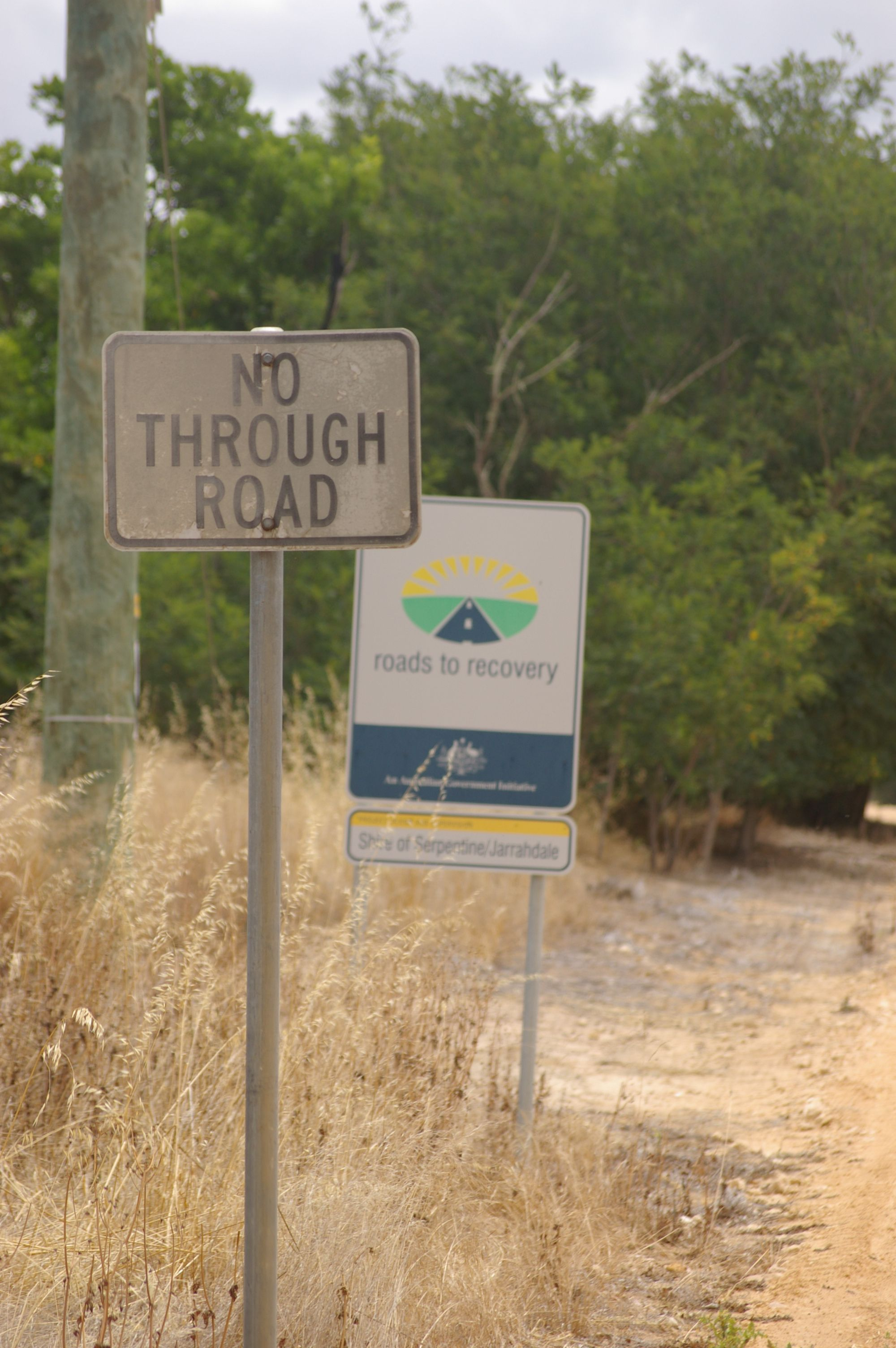 Road signs in Scott Rd Mundijong, irony of "Roads to recovery" being on a no through road